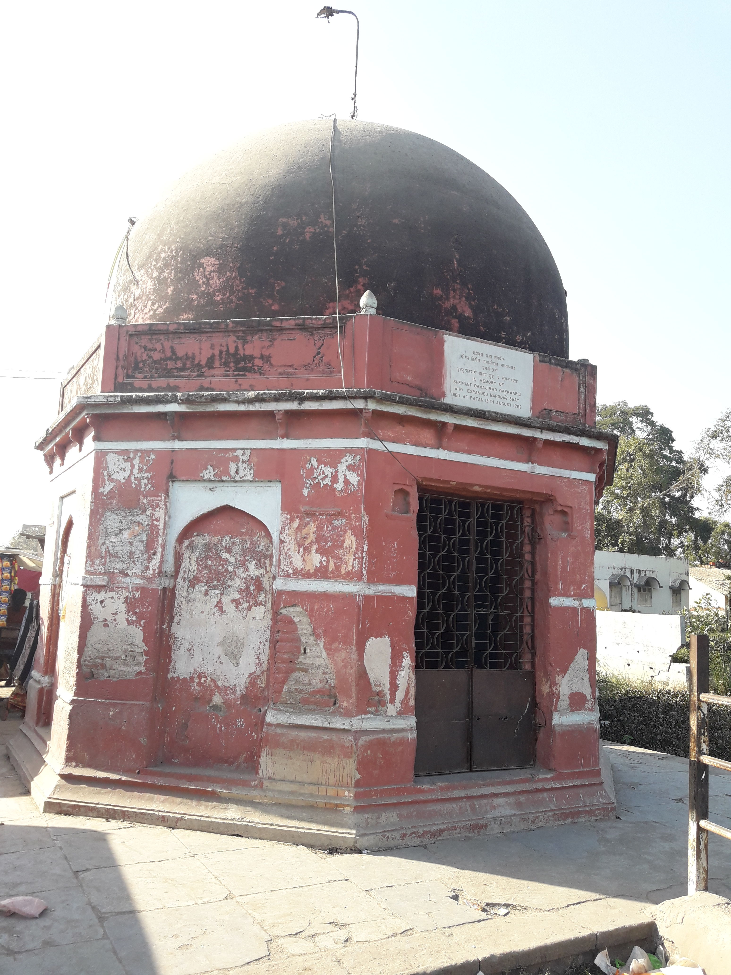 Damajino Dero, a memorial cenotaph dedicated to Damajirao Gaekwar II, who died at Patan on 18 August 1768